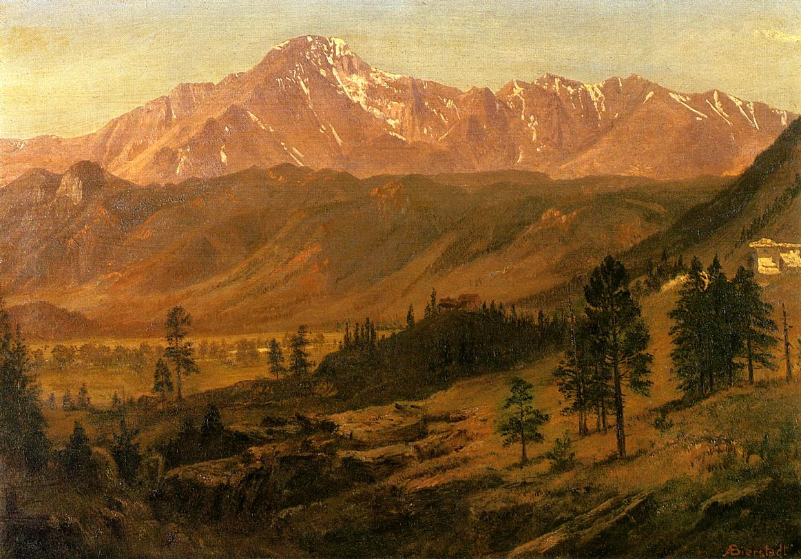 Of Pikes Peak, in the Rocky Mountains.